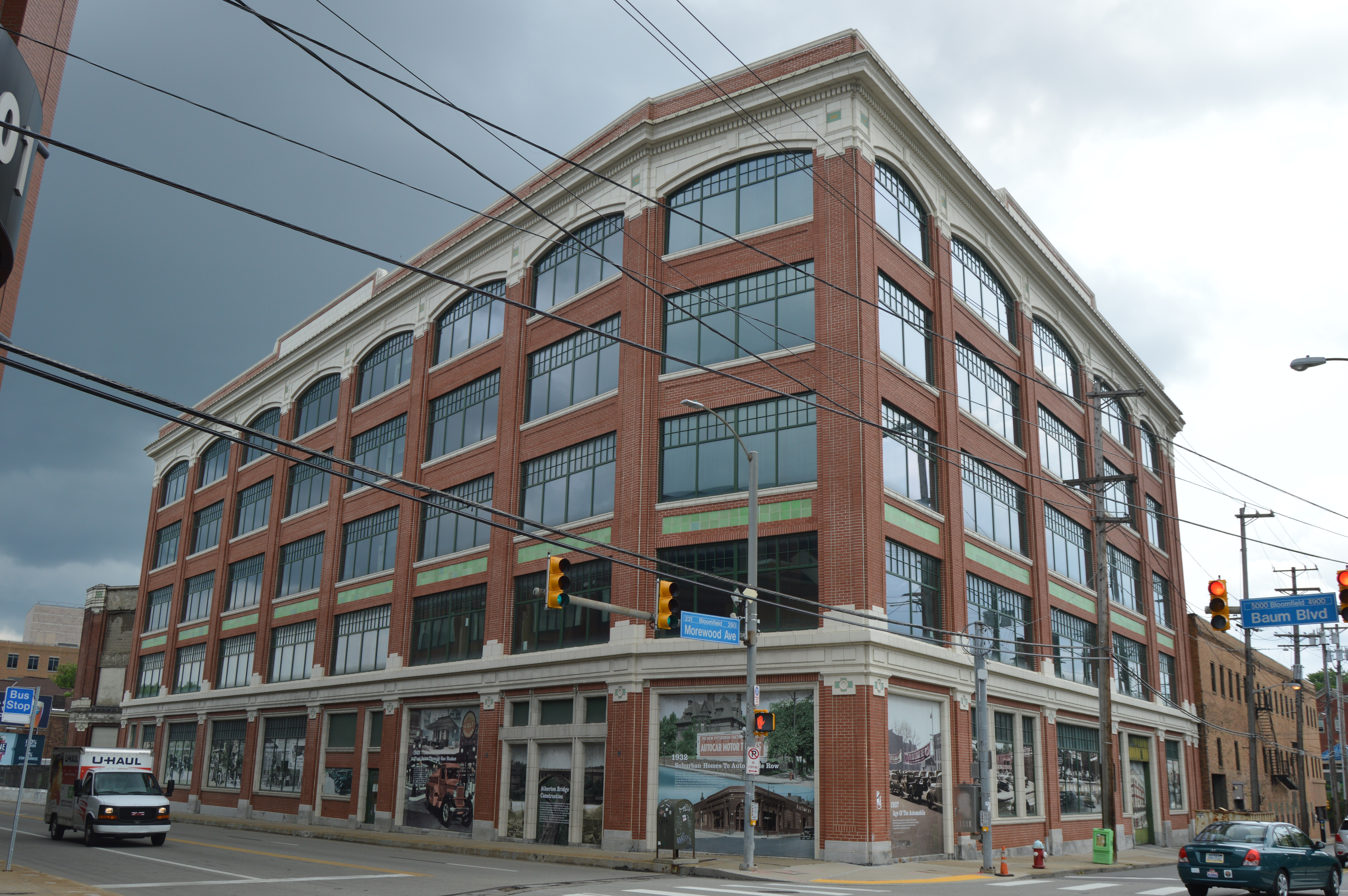 Front and western side of the Ford Motor Company Assembly Plant, located at 5000 Baum Boulevard in Pittsburgh, Pennsylvania, United States. Built in 1915, it is listed on the National Register of Historic Places.